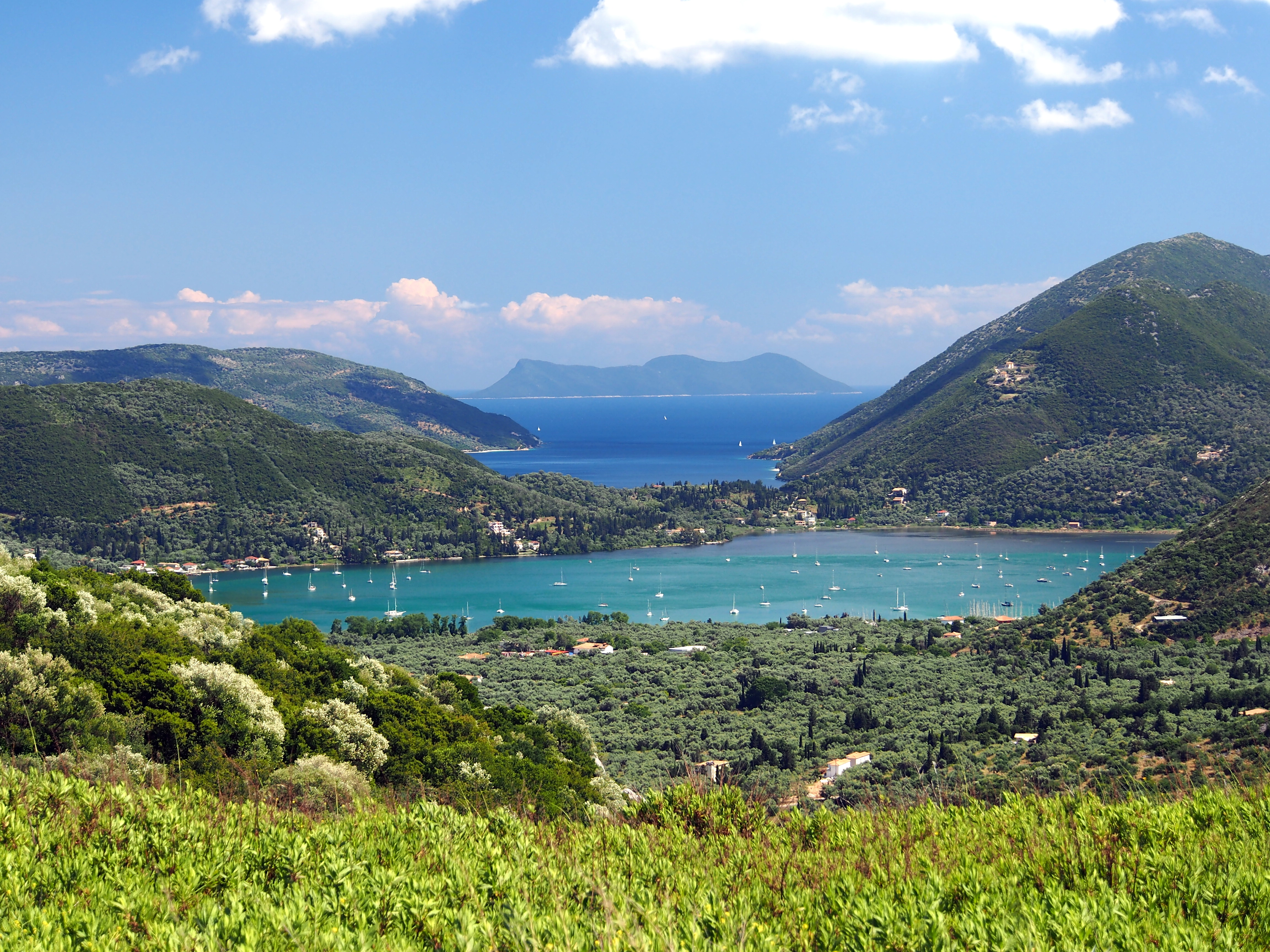 Photographed on Lefkada, Greece.